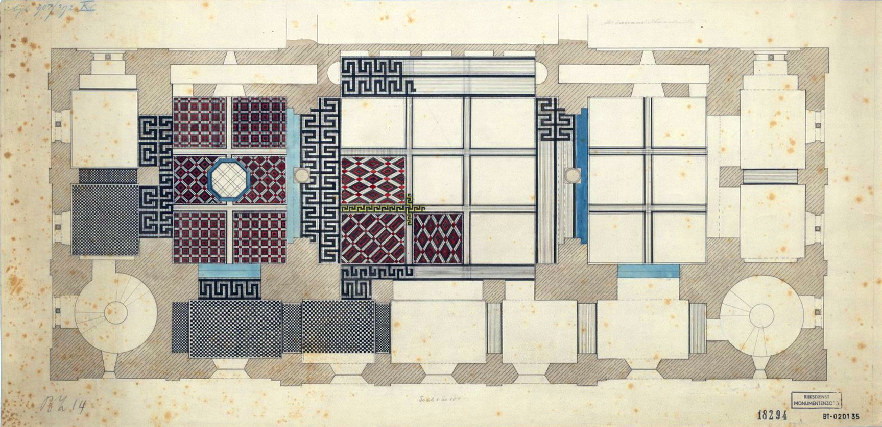 Design of a tiled floor in the Westwork of the Basilica of Saint Servatius in Maastricht, the Netherlands, possibly by Cuypers (1880s?).